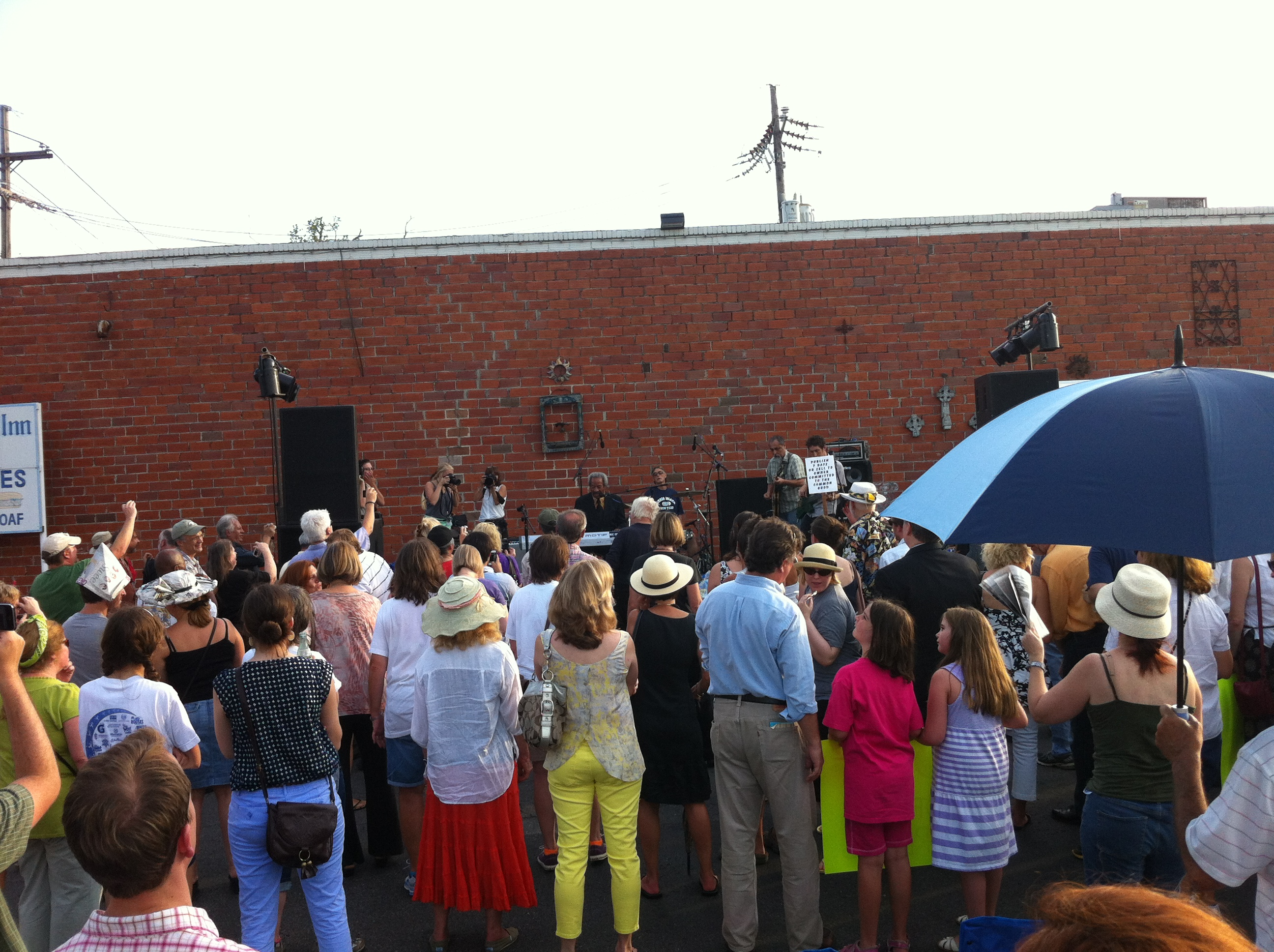 Allen Toussaint plays in the Rock N Bowl parking lot at rally to save the daily Times-Picayune Newspaper, New Orleans.